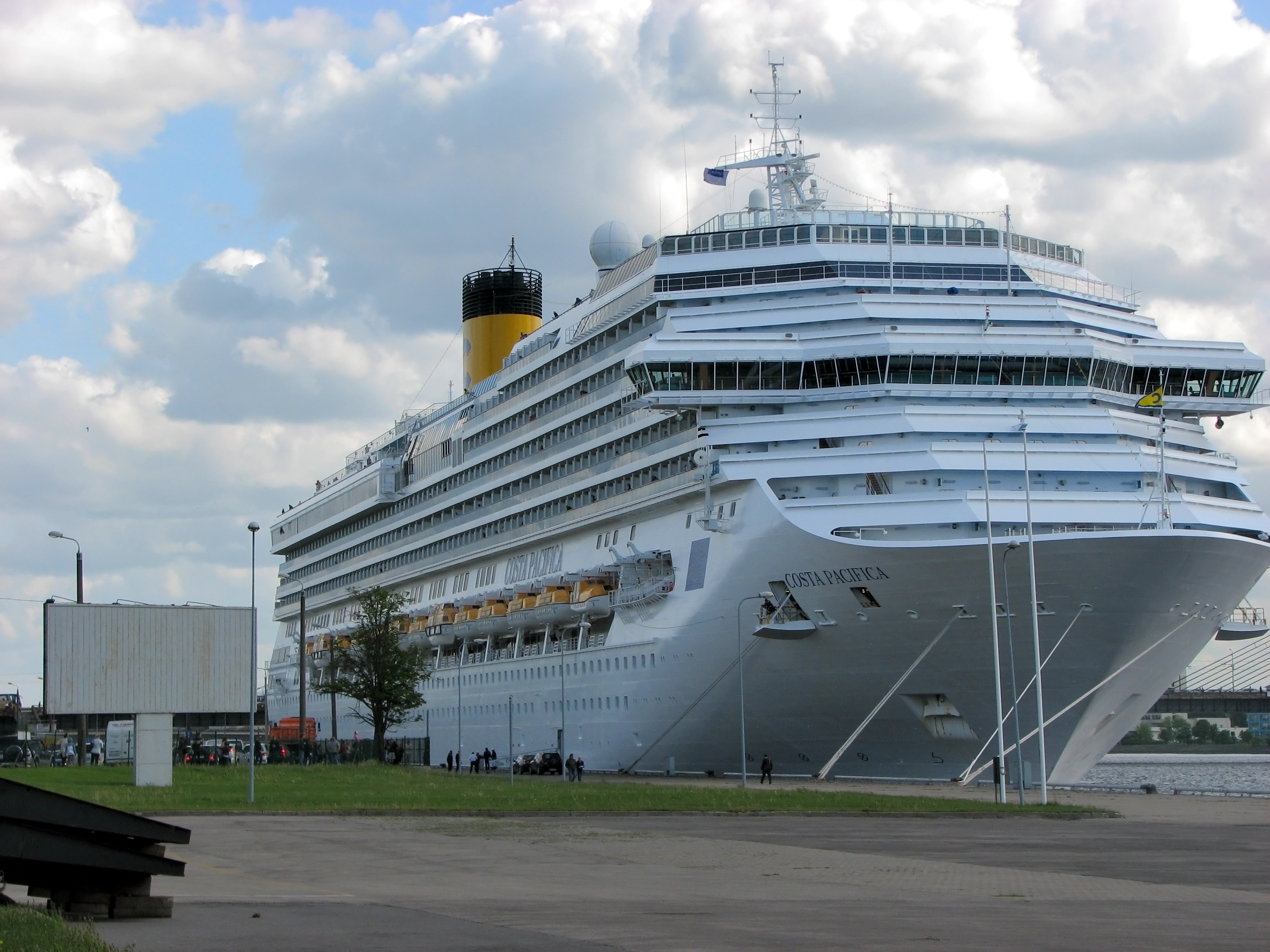 The ship Costa Pacifica in Riga.